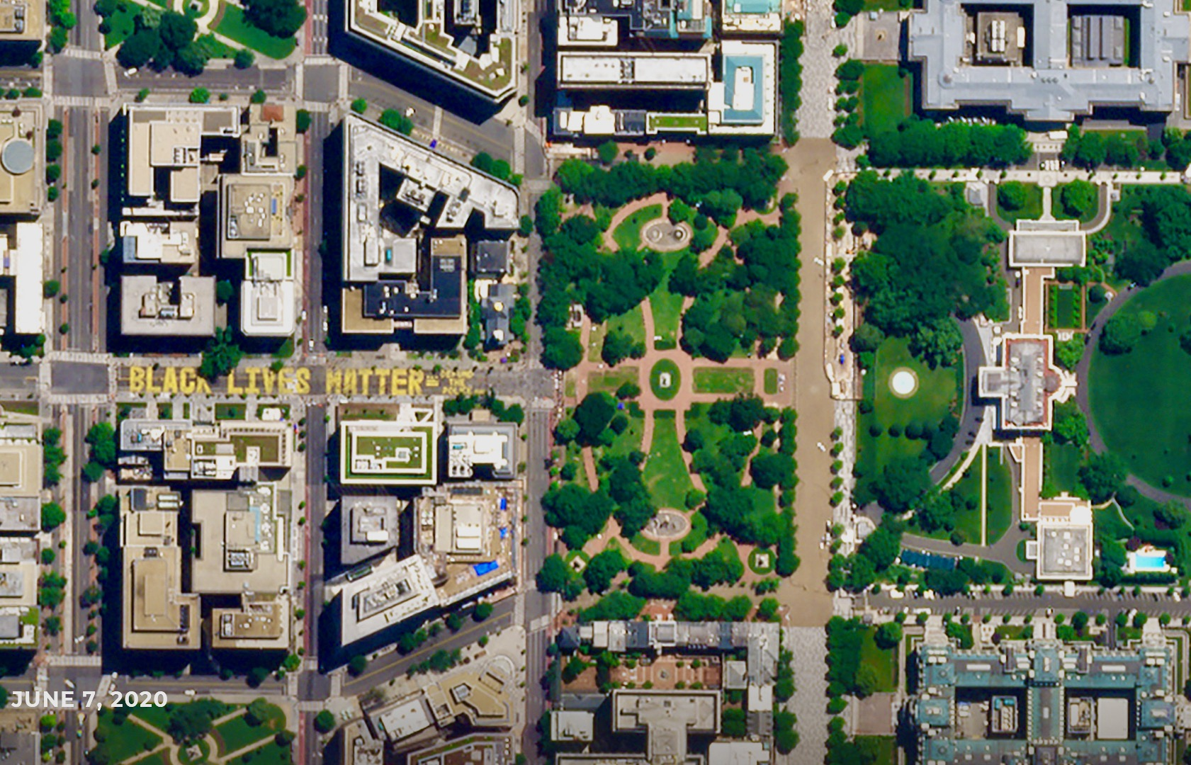 The Black Lives Matter mural on the road to the White House, as seen by the Planet Labs satellite orbiting overhead.